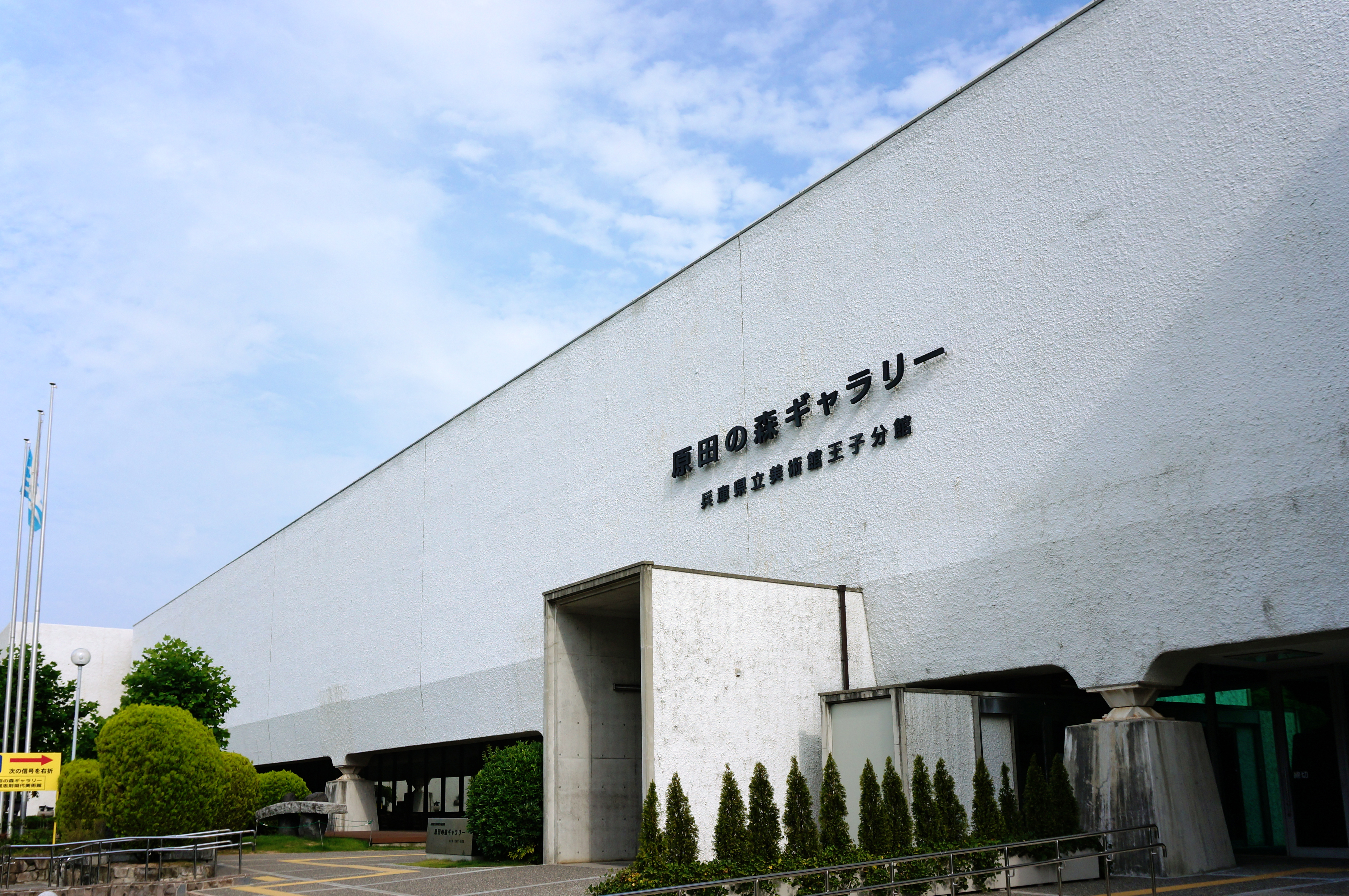 Hyogo Prefectural Museum of Art Annex in Kobe, Hyogo prefecture, Japan